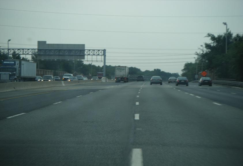 Eastbound Interstate 76 past the exit for southbound U.S. Route 130 (exit 1C) in Gloucester City, New Jersey